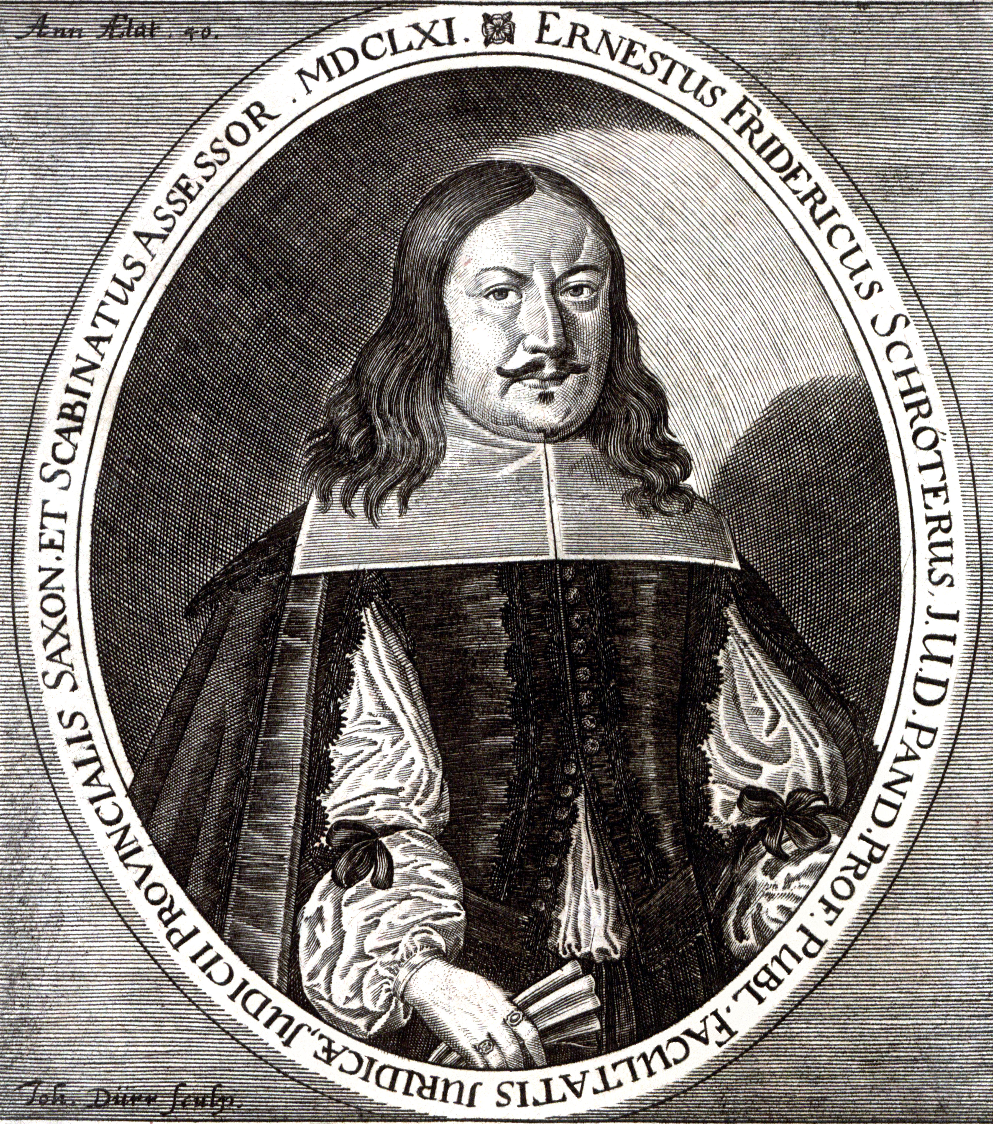 Ernst Friedrich Schröter (1621-1676) german legal Scholar